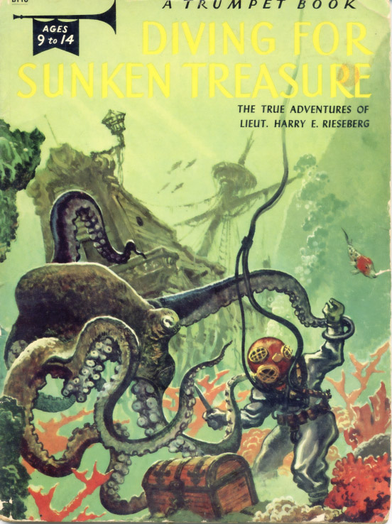 Diving for Sunken Treasure cover illustration